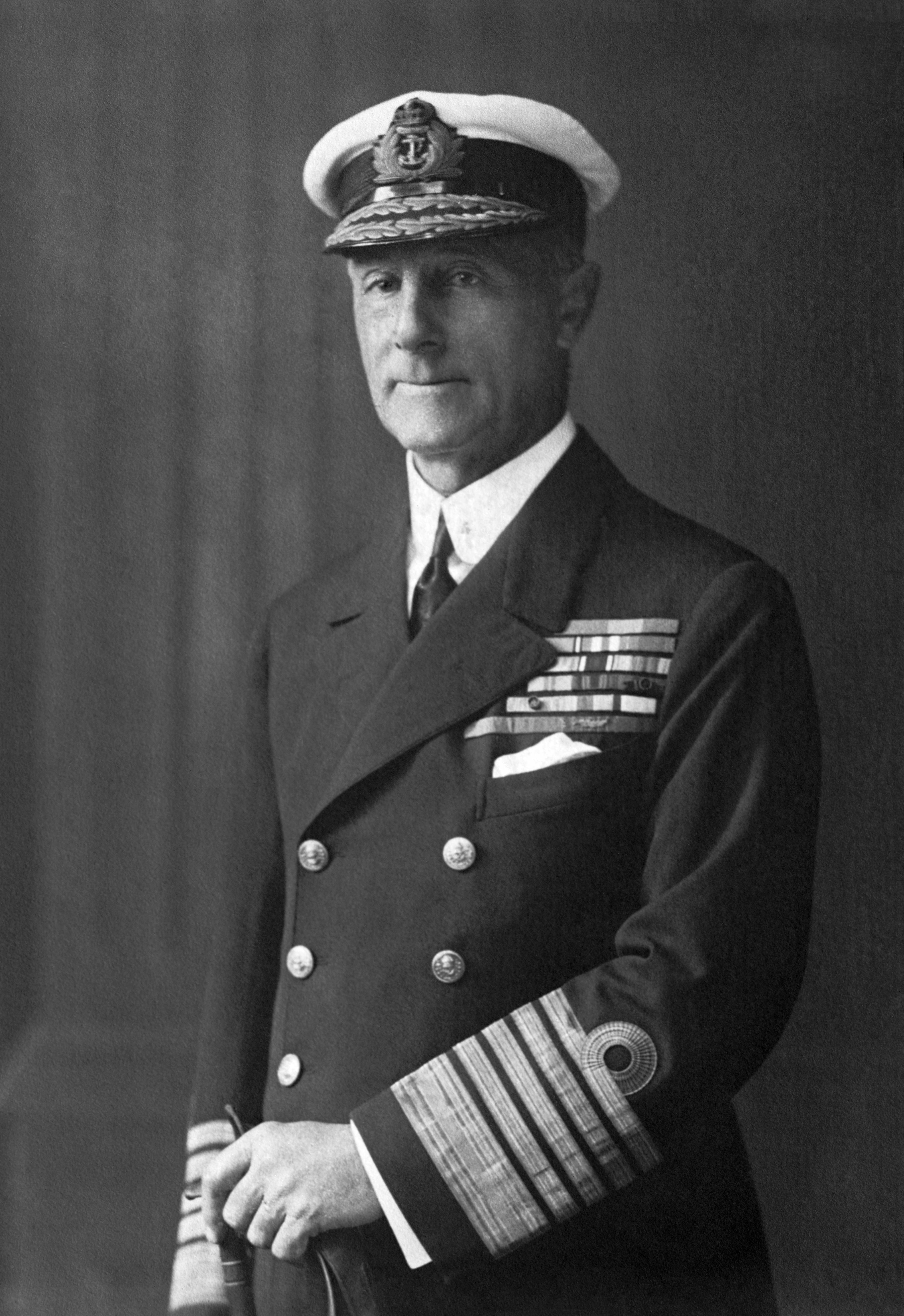 British Admiral John Jellicoe (5 December 1859 – 20 November 1935). Is wearing uniform of the Admiral of the Fleet, which rank he achieved in 1919.